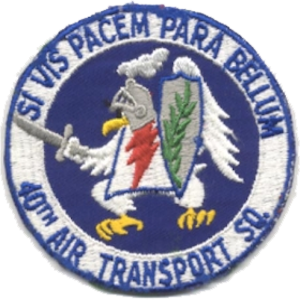 Emblem of the USAF 40th Air Transport Squadron - MATS